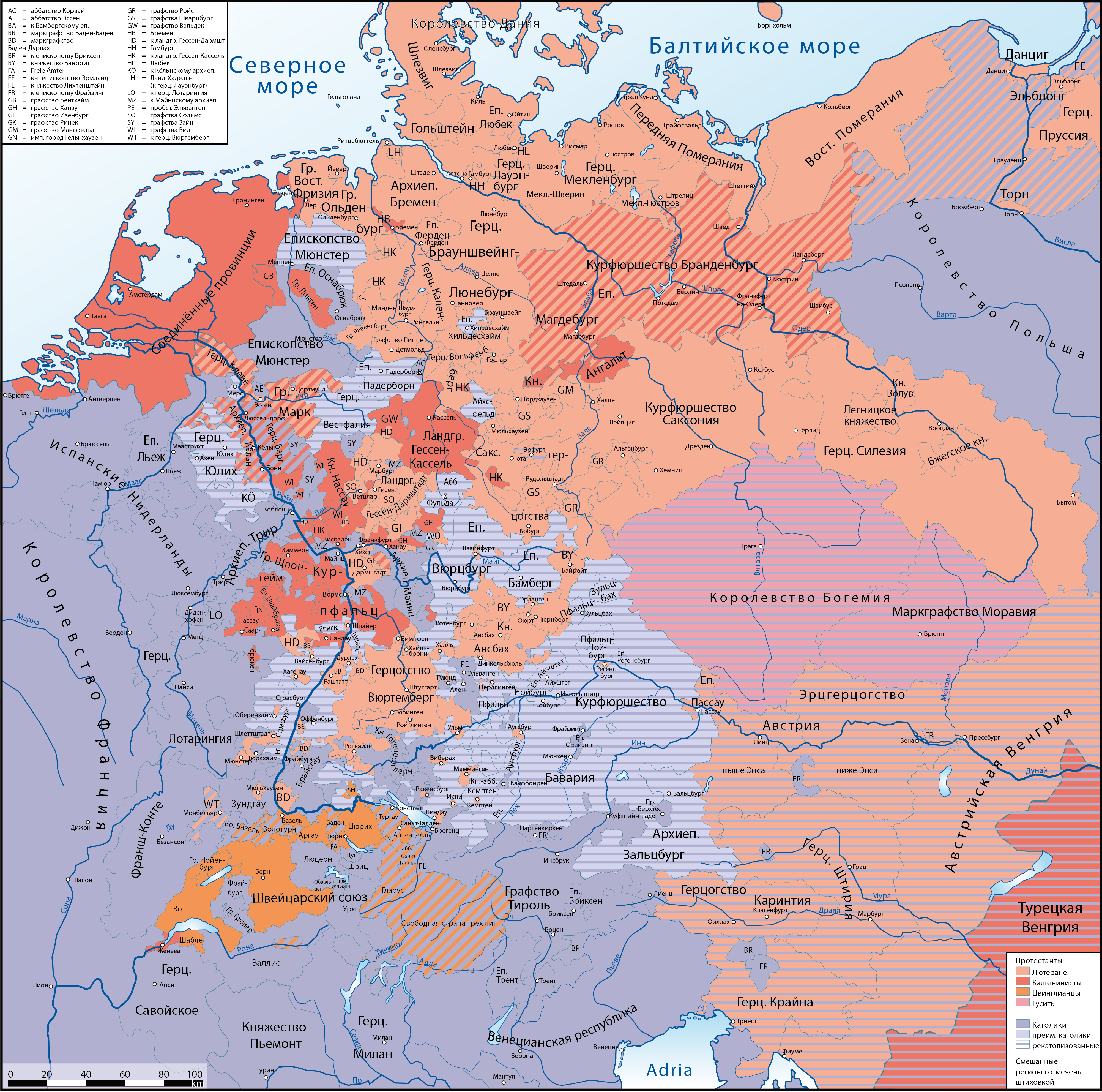 Map of the religious situation in central europe, 1618. Russian version